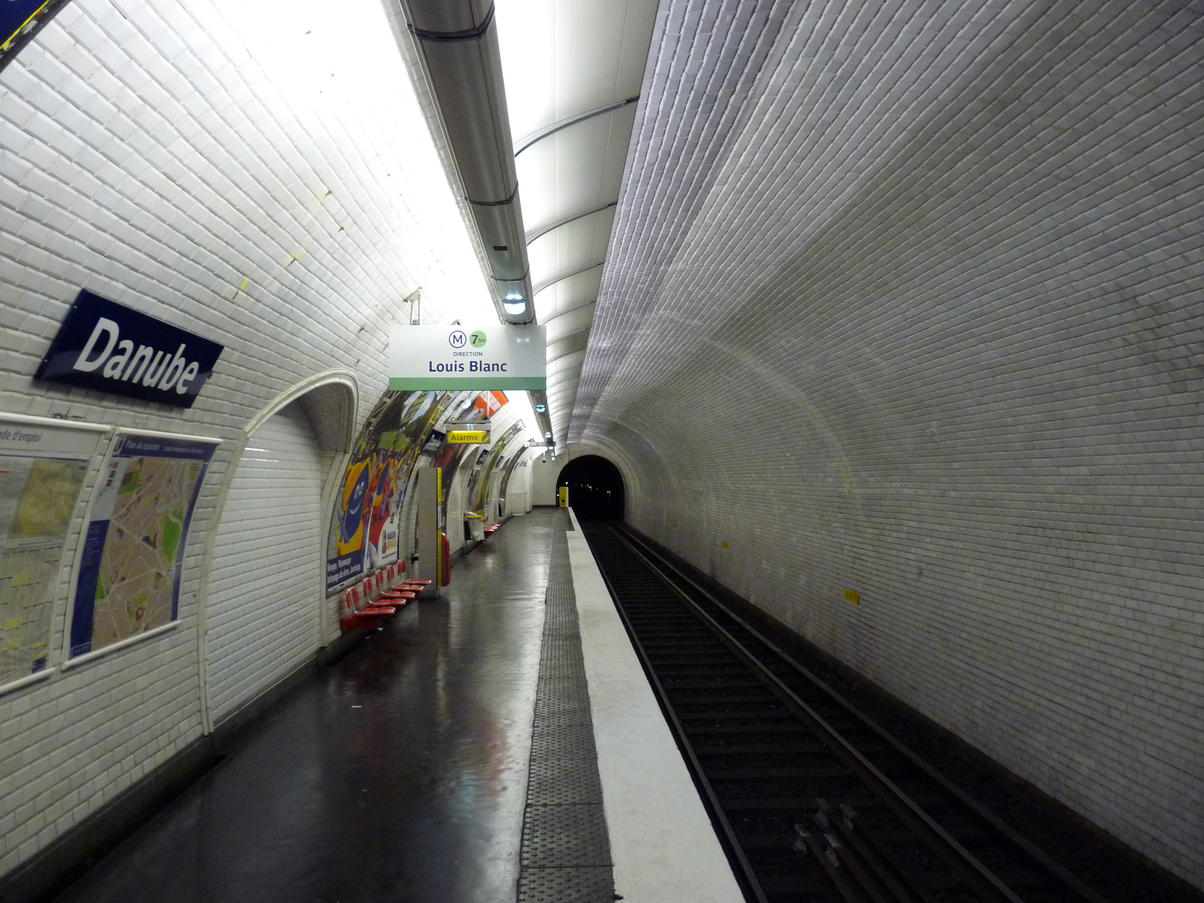 Platform of the metro station Danube (line 7bis), Paris